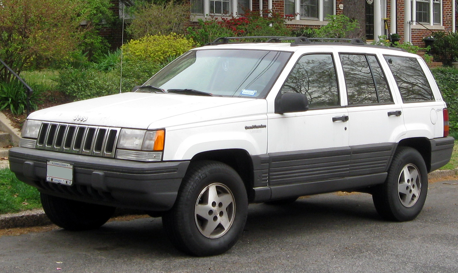 1993-1995 Jeep Grand Cherokee photographed in Washington, D.C., USA.